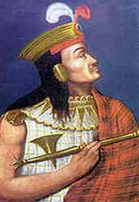 Atahualpa Inca Emperor